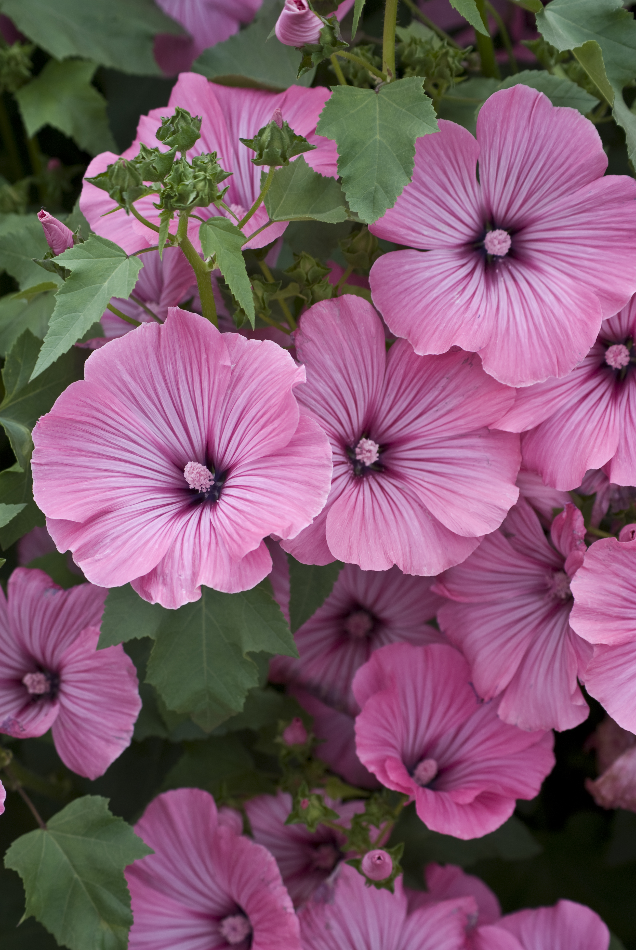 Flower at Nymans Garden